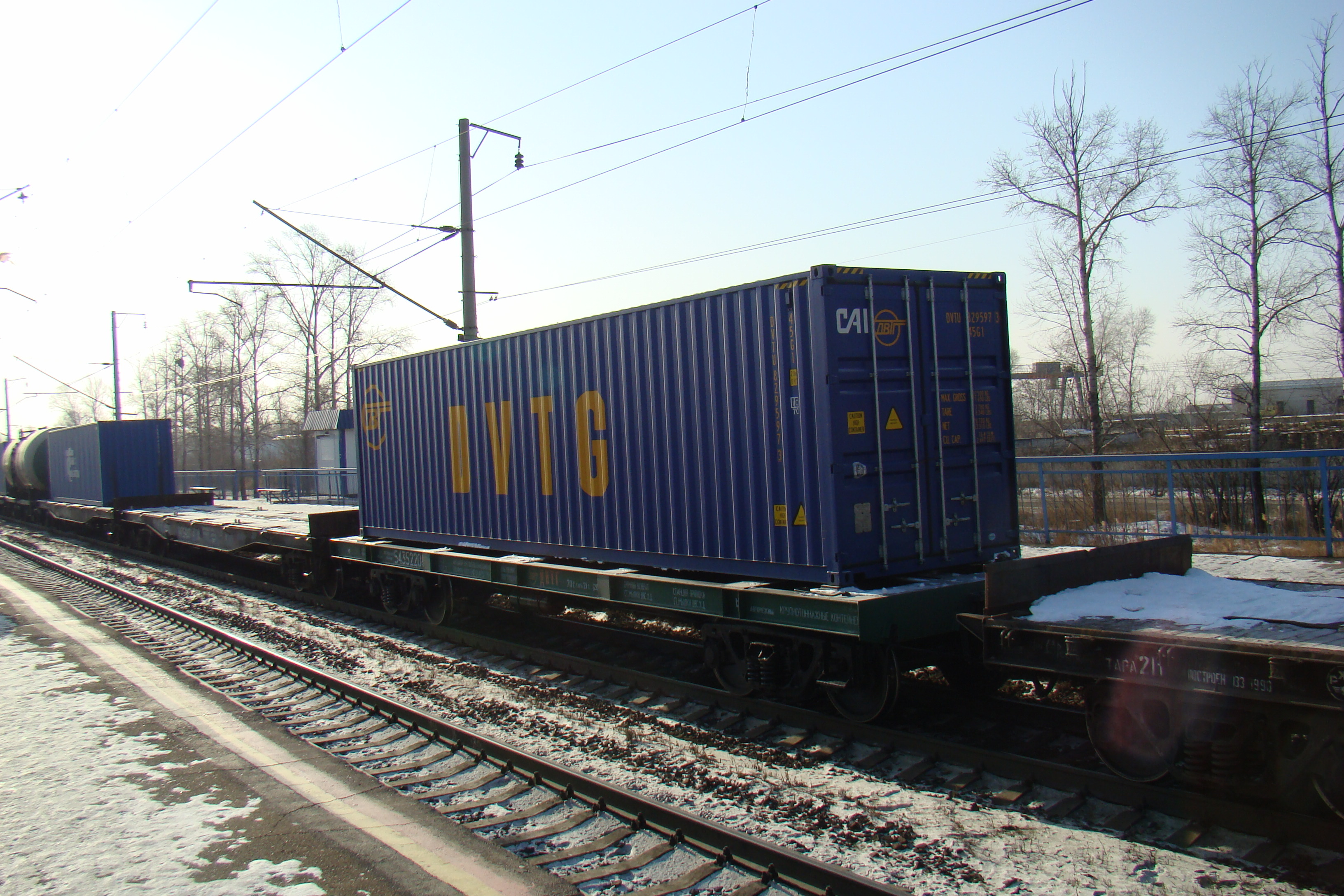 well car for container